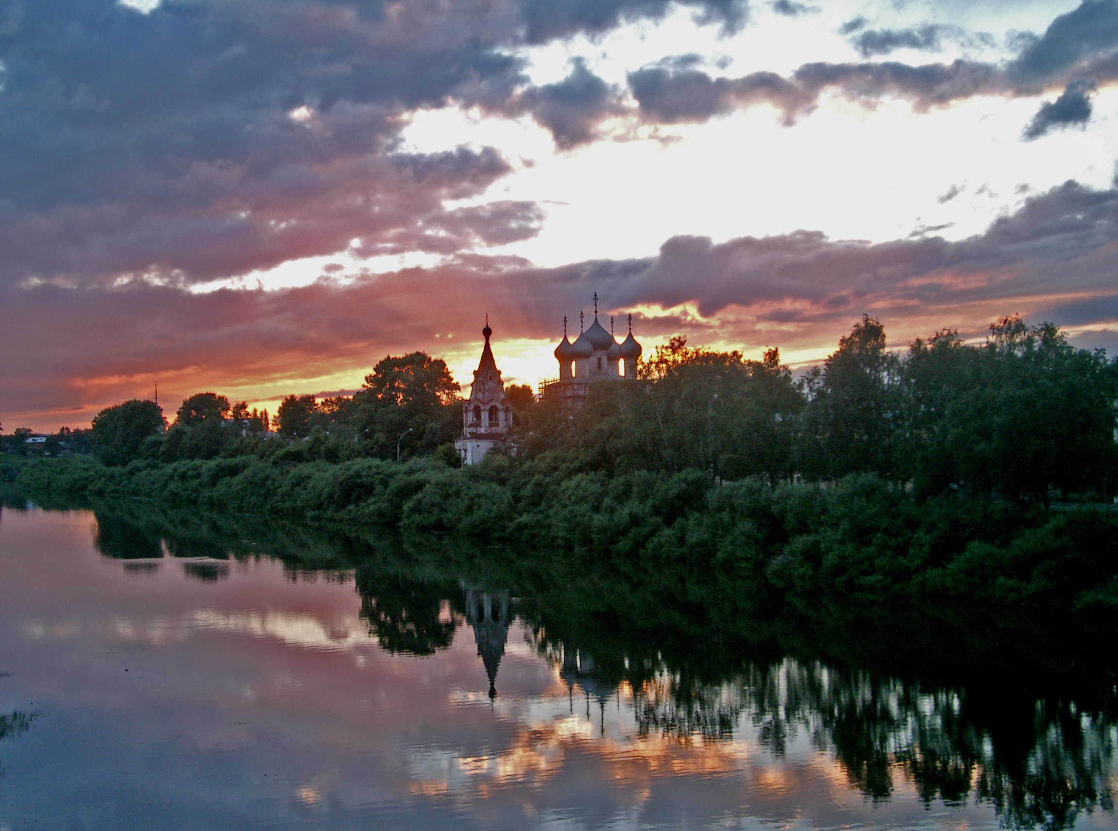 Vologda River in the city of Vologda. On the right side, the quarter of Zarechye. The Church of John the Chrysostome is seen.